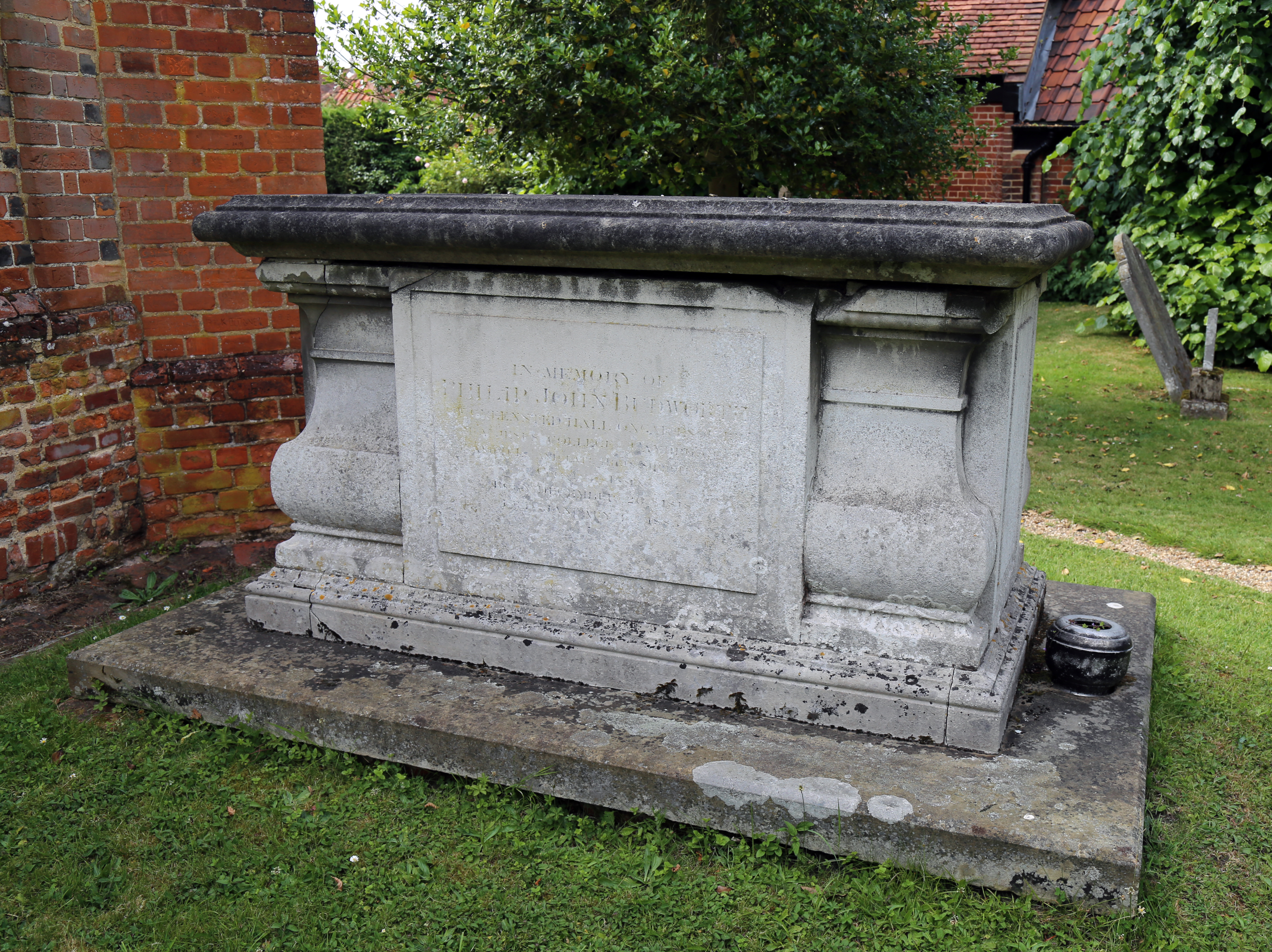 Churchyard table tomb at the east of the chancel of St Andrew's Church, Greensted, in the civil parish of Ongar, Essex, England